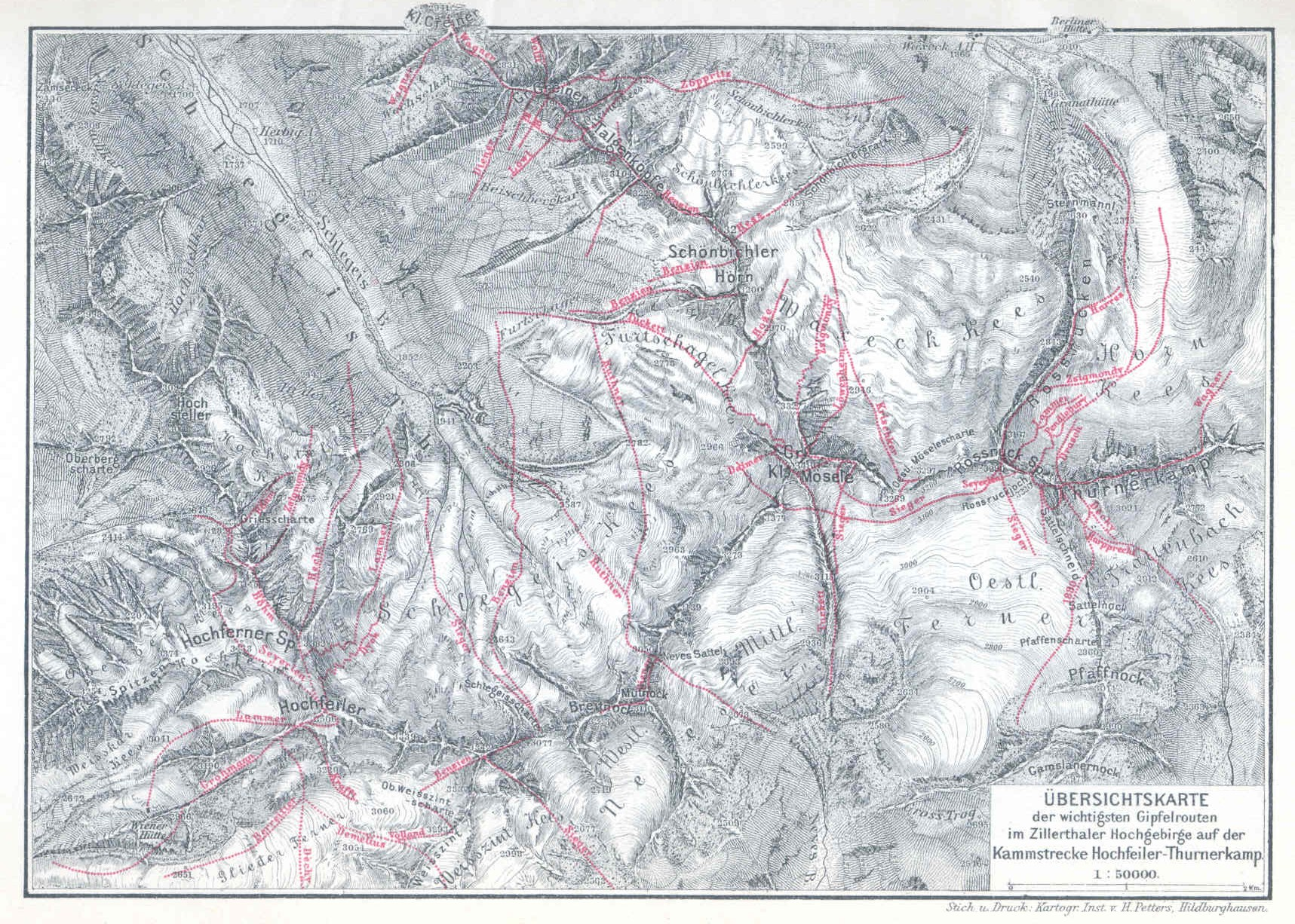 Scan from a historic book 1894